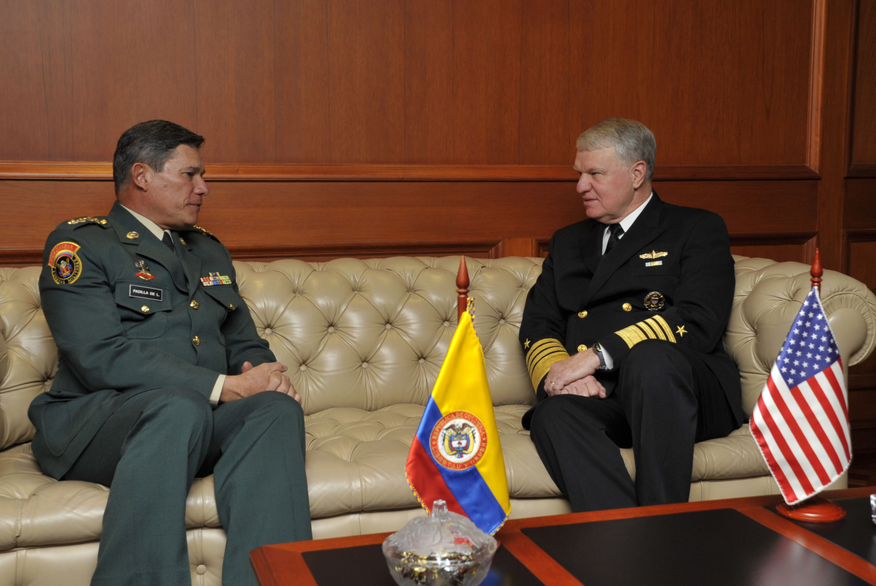 BOGOTA (Dec. 3, 2009) Chief of Naval Operations (CNO) Adm. Gary Roughead, right, meets with Gen. Freddy Padilla, commander of Colombian military forces, during a visit to the Colombian military forces headquarters in Bogota, Colombia. (U.S. Navy photo by Mass Communication Specialist 1st Class Tiffini Jones Vanderwyst/Released)